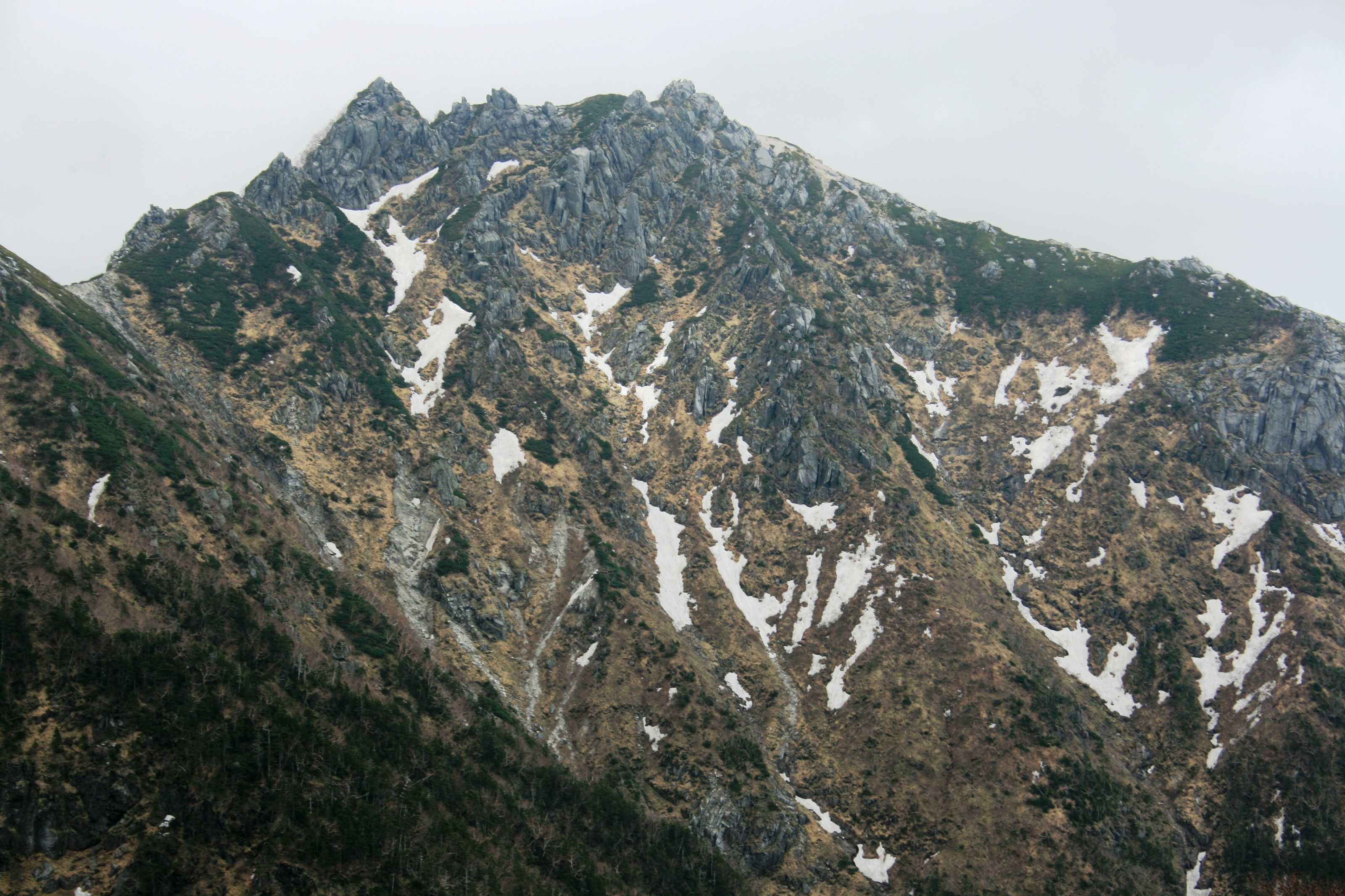 Mount Sengai (Sengairei) from Mount Minamikoma in Kiso Mountains, Nagano pref., Japan.